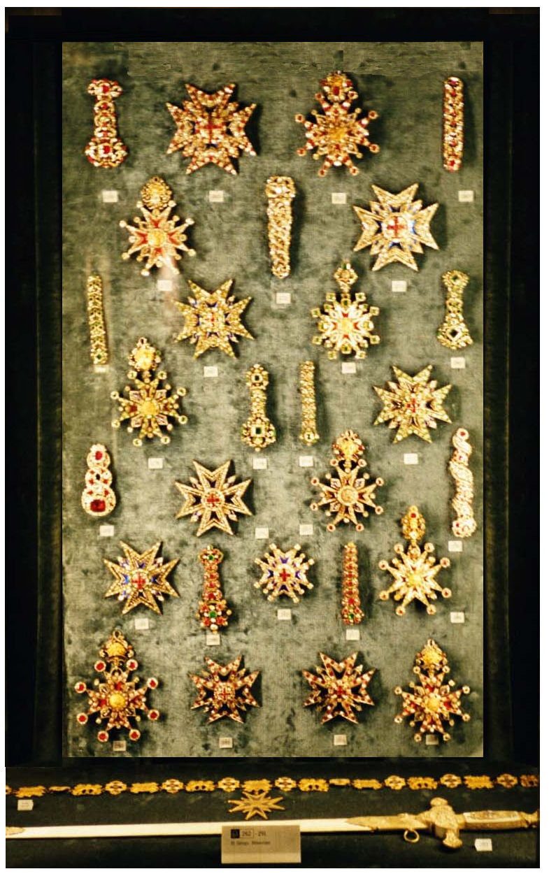 Munich Residenz